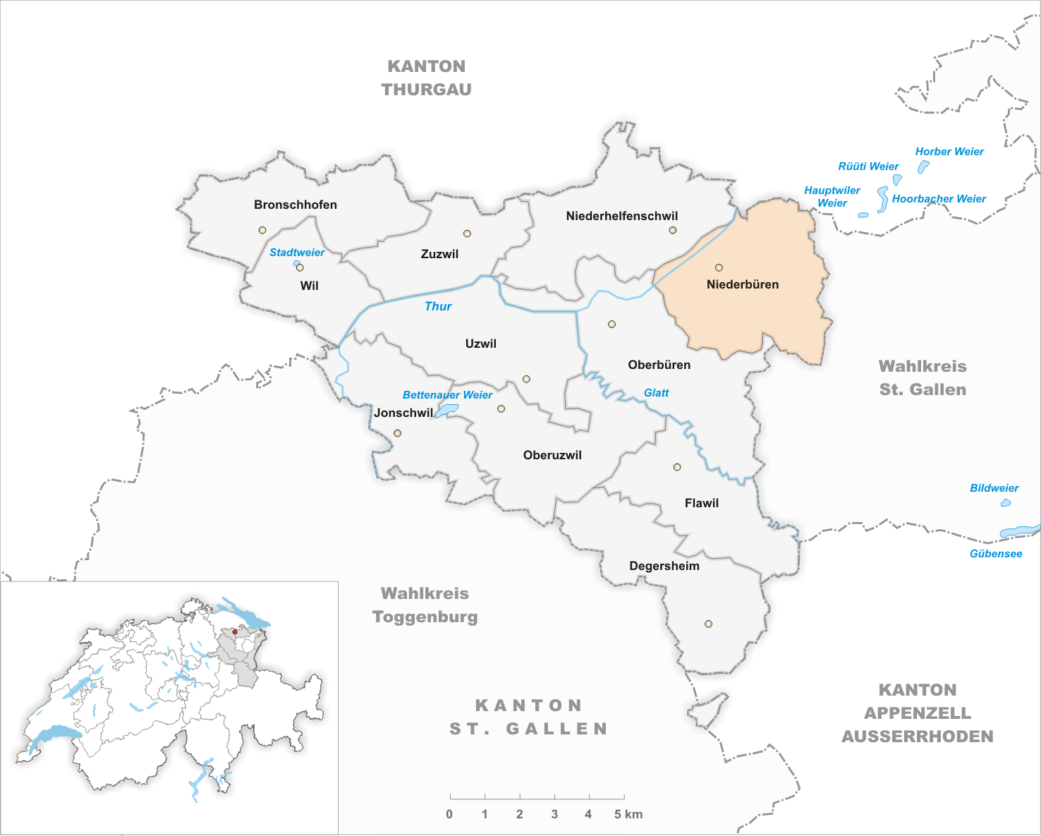 Municipality Niederbüren